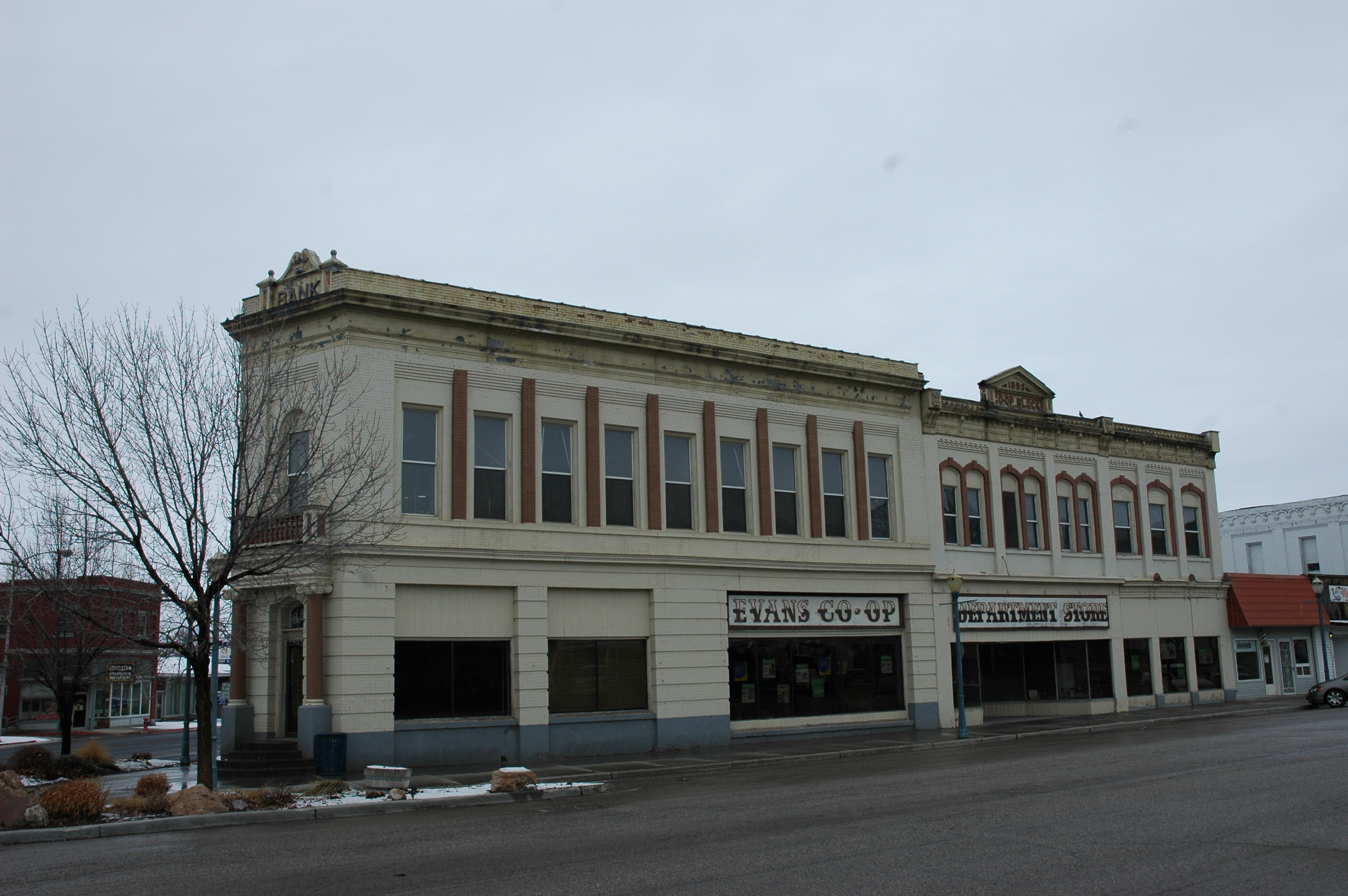 The Co-Op Block and J. N. Ireland Bank, a historic building in Malad, Idaho, United States.